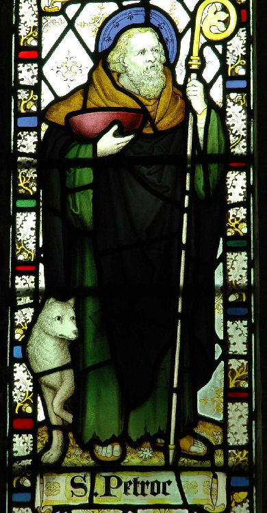 Victorian glasswork with Saint Petroc of Cornwall, at Bodmin church.